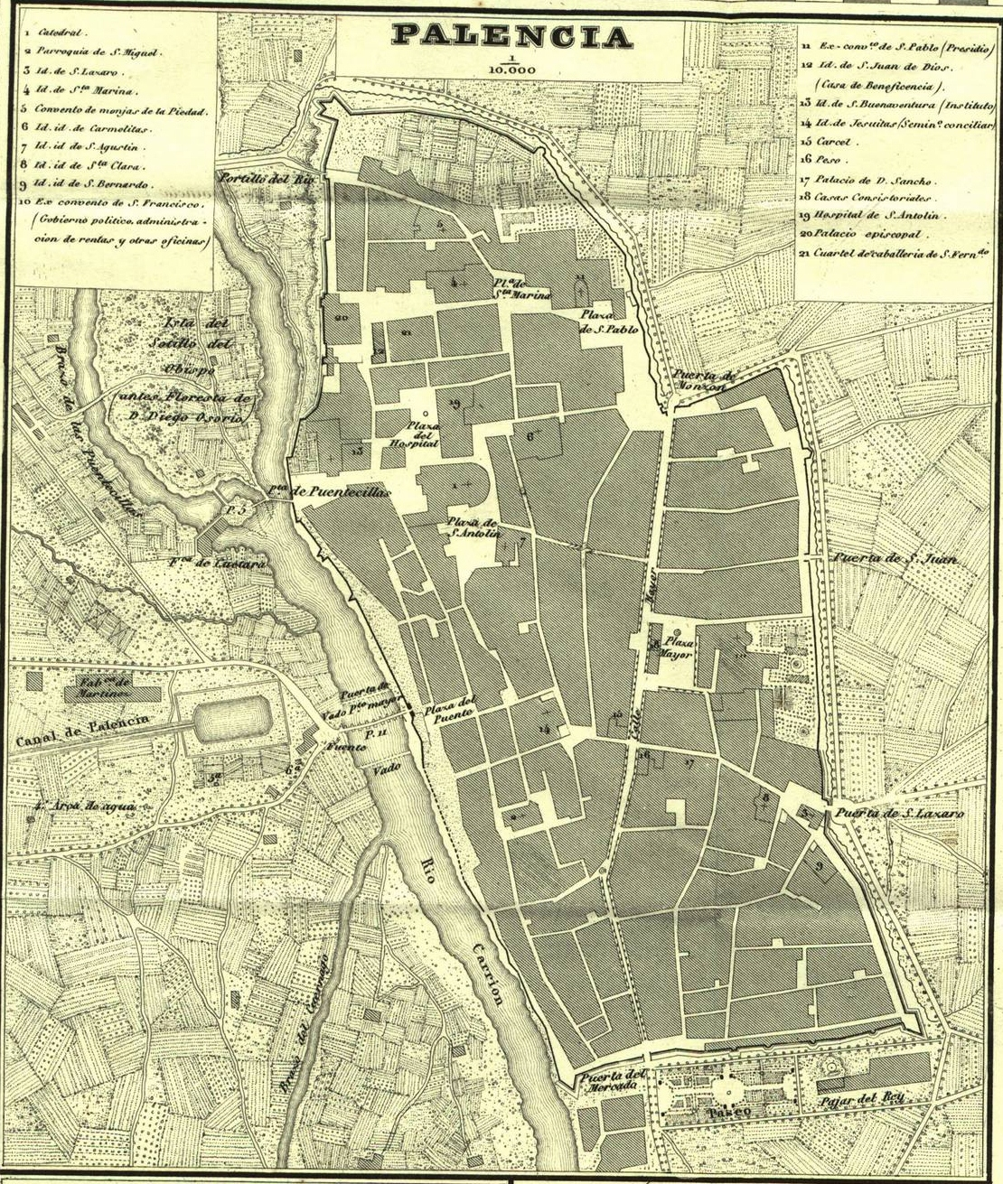 Map of Palencia cropped from the 1852 province of Palencia map by Francisco Coello